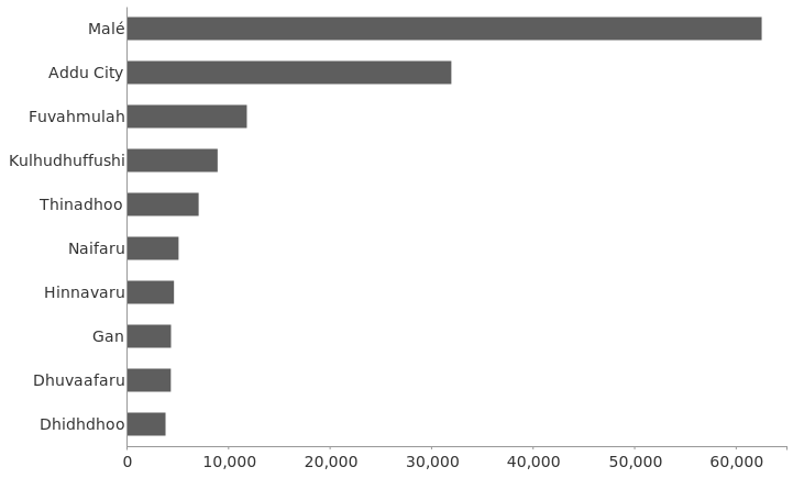 Largest cities or towns of Maldives (2012) Created using . Update the visualization here.